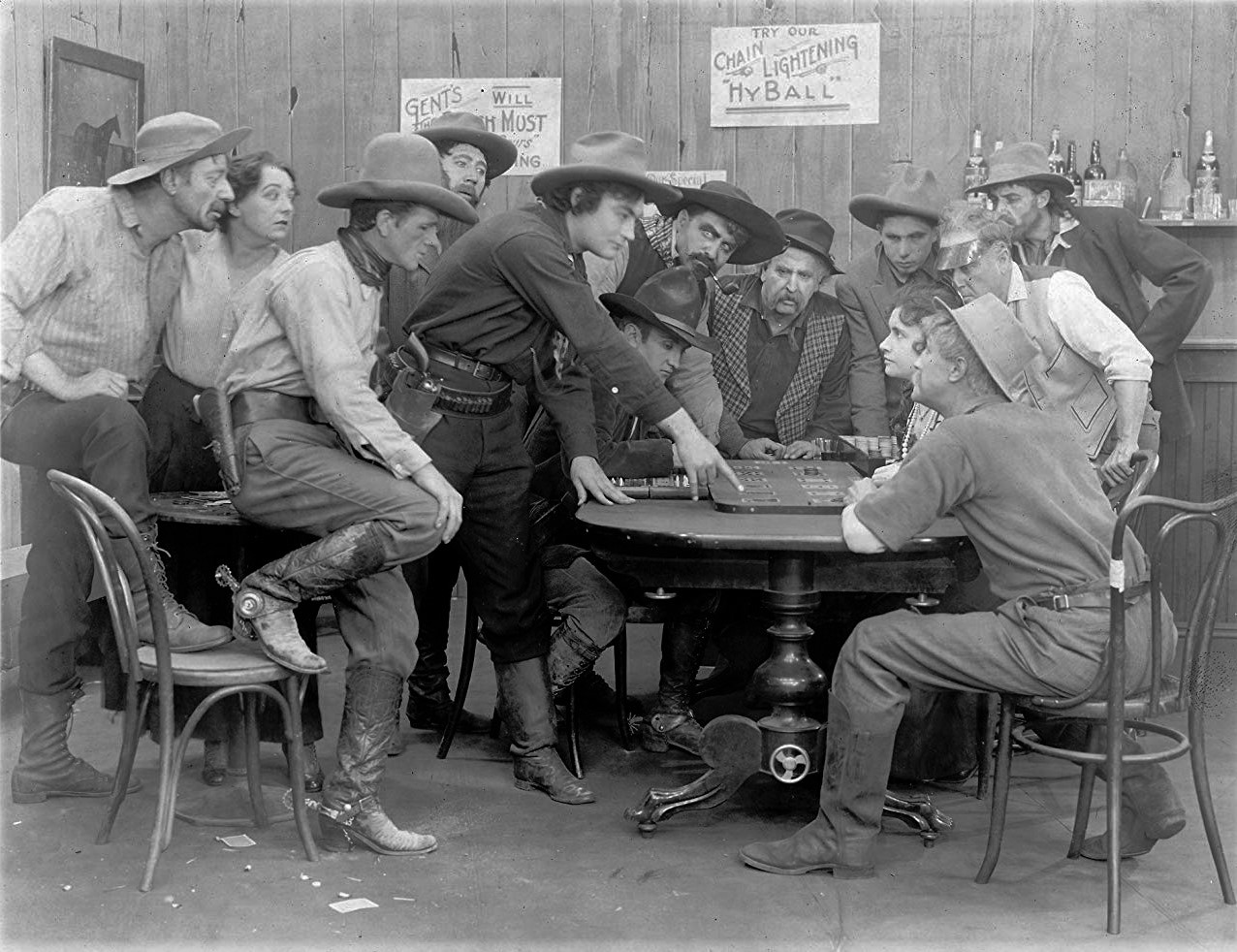 Publicity still for the Frank McGlynn Sr.'s film short Her Inspiration (cropped)